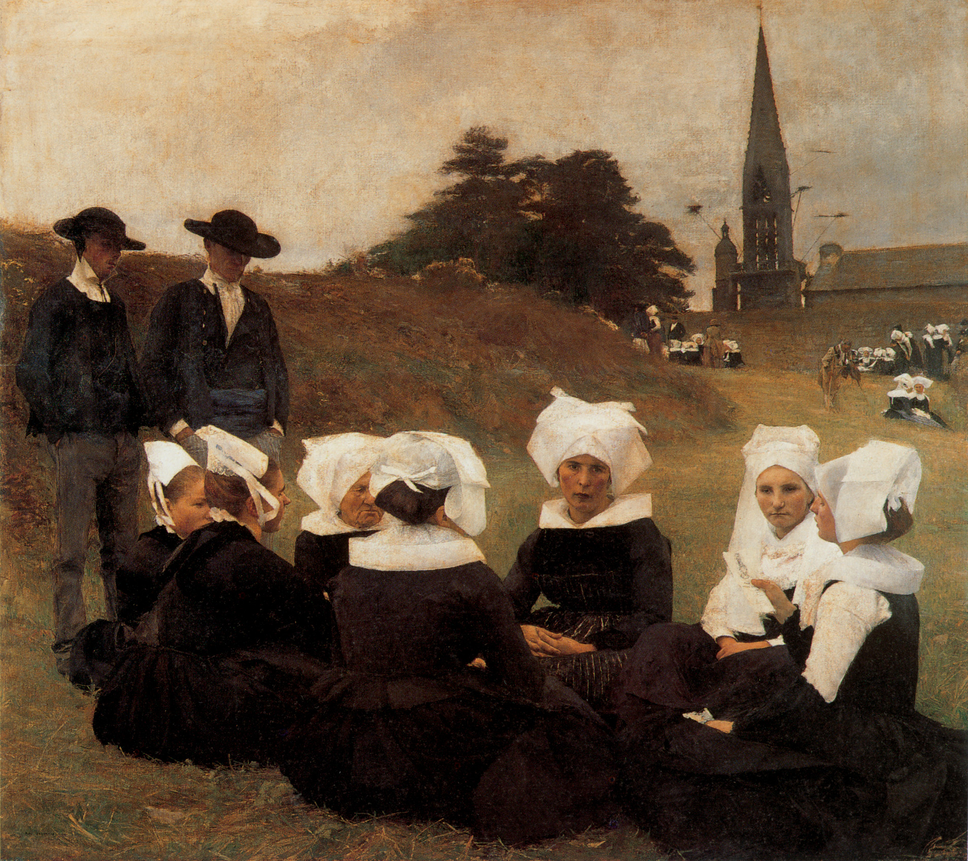 Breton Women at a Pardon